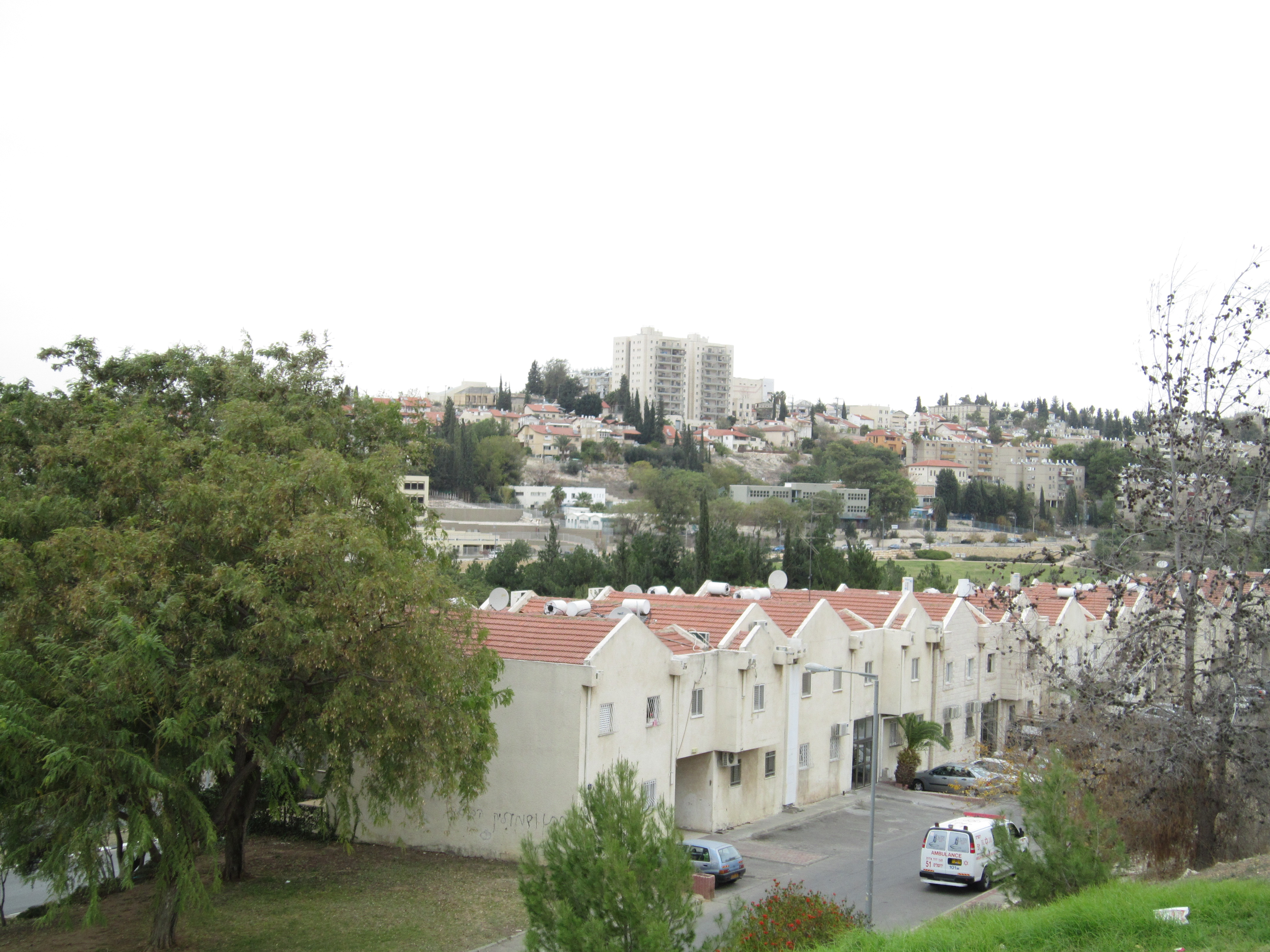 תמונת נוף משכונת גבעת שרת כלפי בית שמש